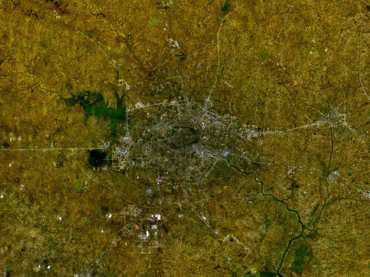 Hefei, China